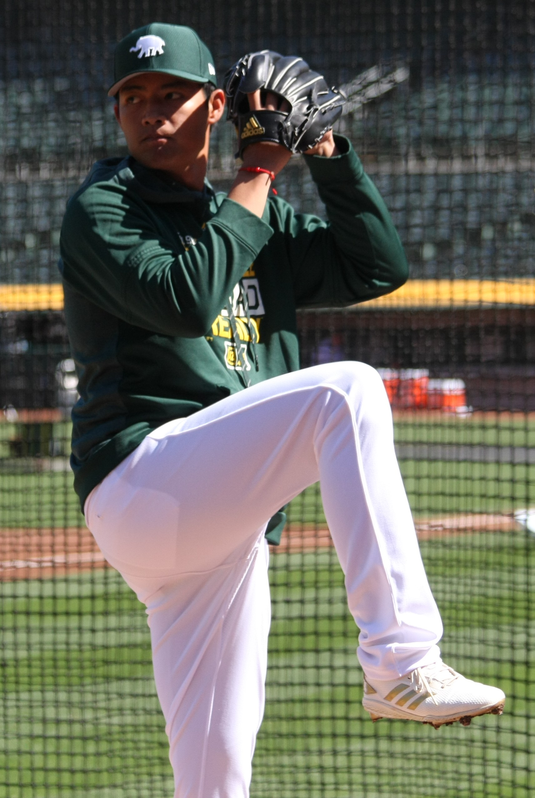 Oakland A's pitcher Wei-Chung Wang - Angels at A's, May 28, 2019